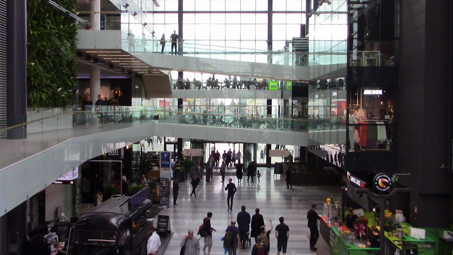 The main square of Valkea shopping center in Oulu, Finland.